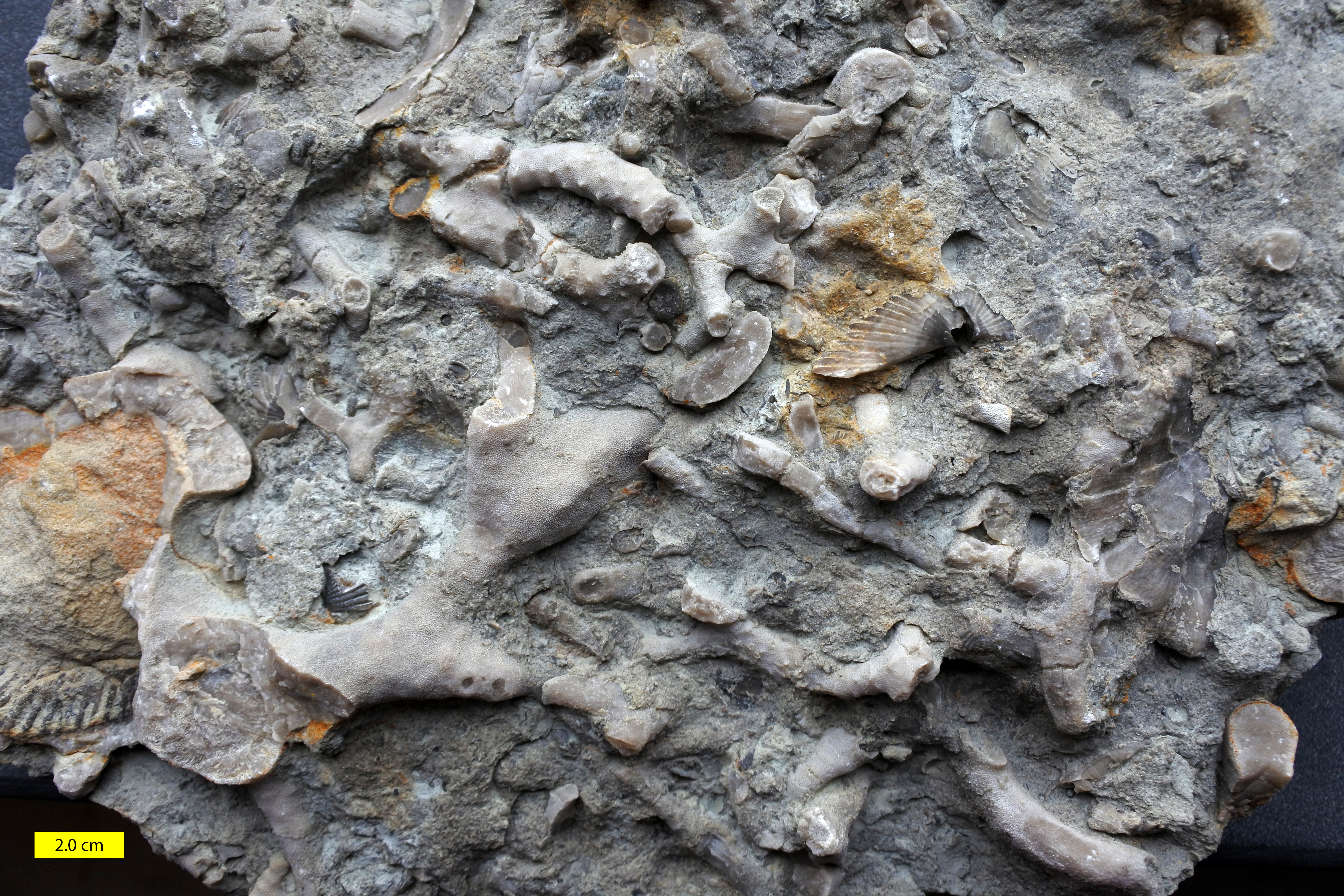 Fossiliferous slab of the Whitewater Formation (Upper Ordovician) exposed near Richmond, Indiana.